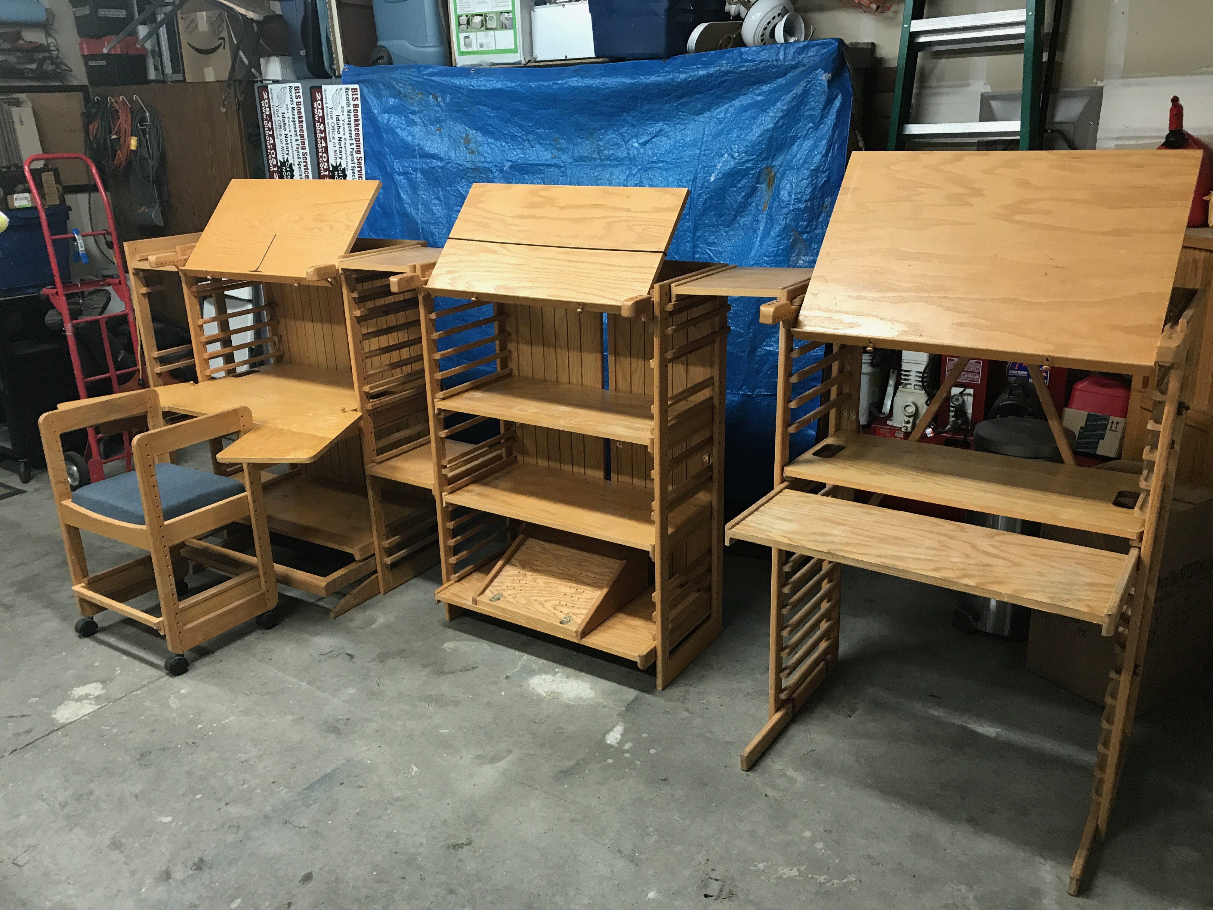 A Trio of Edelson Treadmill Desk Prototypes actually used by BK Surratt in home and work offices for nearly 30 years.